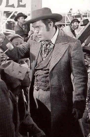 Adrian Morris as Carpetbagger Orator in the 1939 movie "Gone With the Wind"